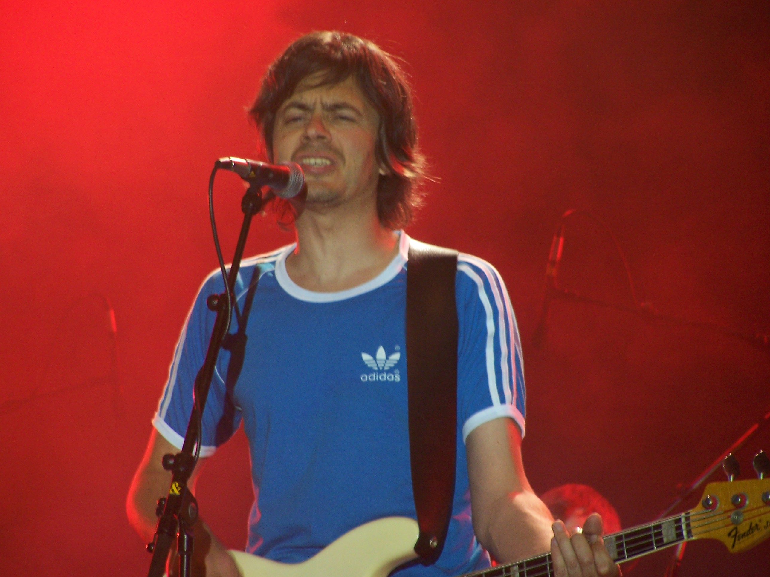 Dirk Blümlein of German pop band Fools Garden at an open air concert in Dresden, Germany